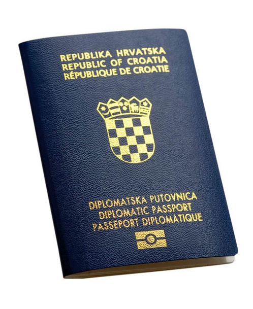 Croatian Diplomatic Passport